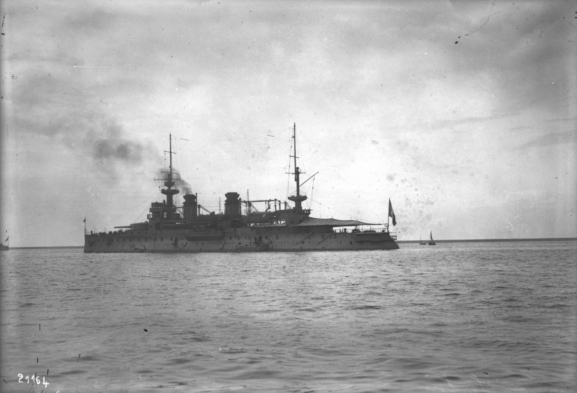 Battleship Gaulois in Cherbourg harbour